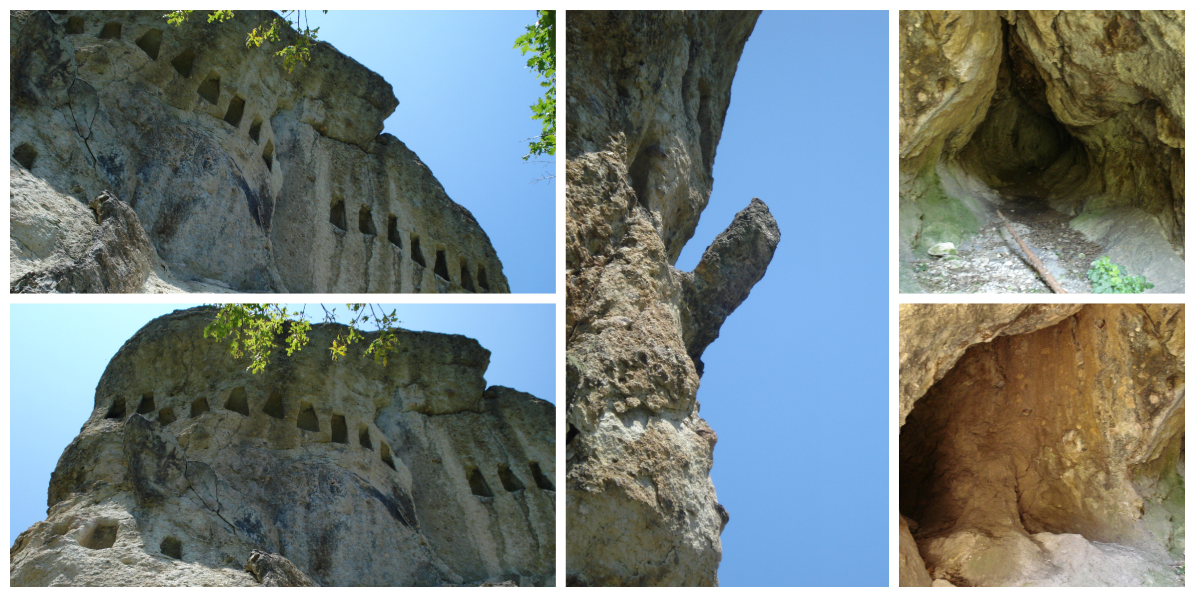 Parmak kaya Nochevo Bulgaria